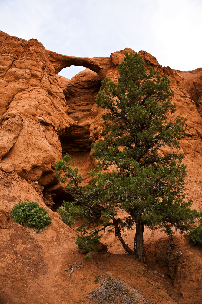 Shakespeare Arch in Kodachrome Basin State Park. View it extra large here